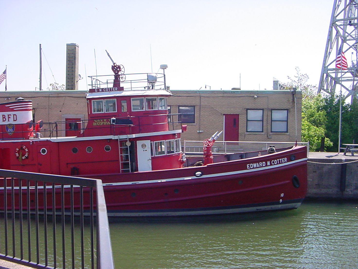 Image I took of the fireboat Edward M. Cotter at Buffalo, New York